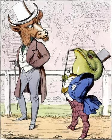 An illustration of "The Frog and the Ox" by Charles Bennett from The fables of Aesop and others translated into human nature (1857)